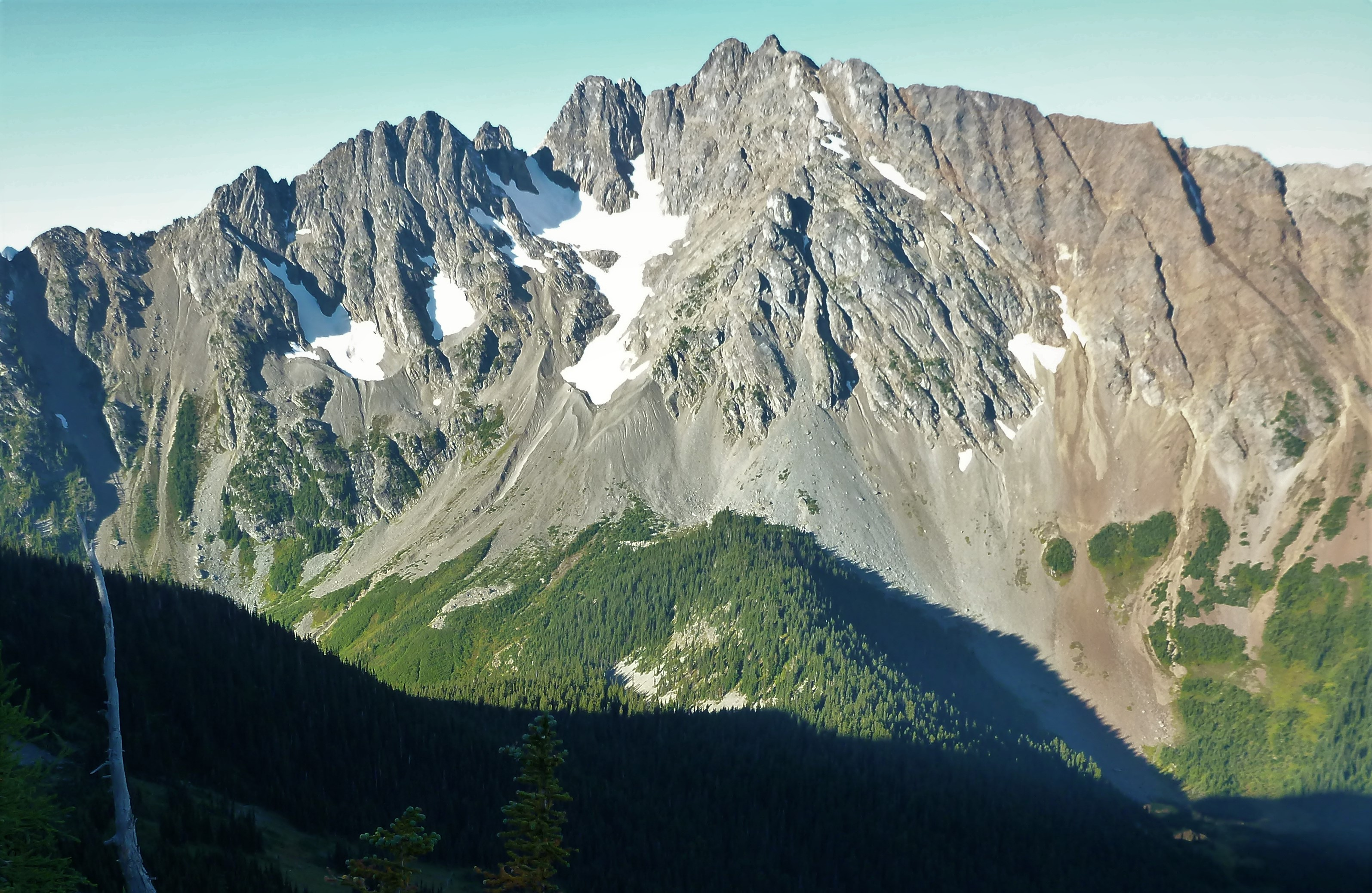 Azurite Peak, northeast aspect, North Cascades of WA